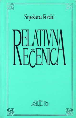 Book cover of Snježana Kordić's Relativna rečenica 1995